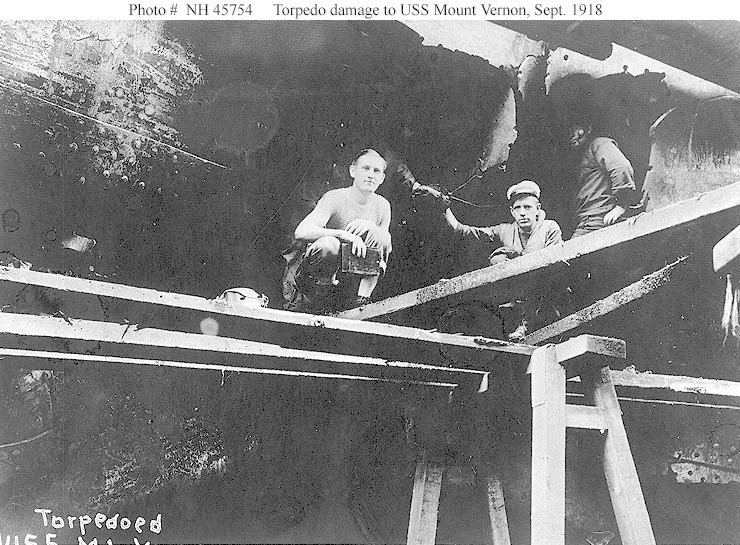 USS Mount Vernon's hull. The photograpgh depicts torpedo damage and workers repairing the American auxiliary cruiser in Brest, France, 1918.